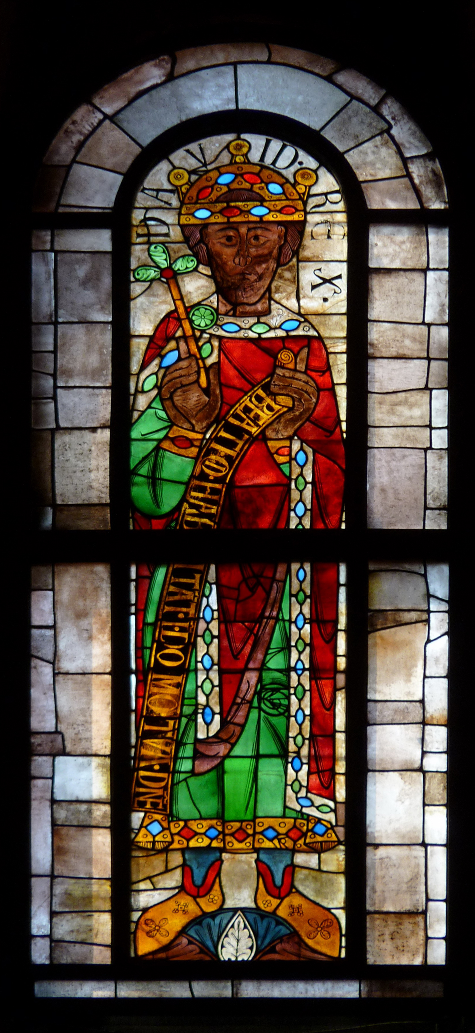 King David in Augsburg Cathedral, stained glass window, early 12th century